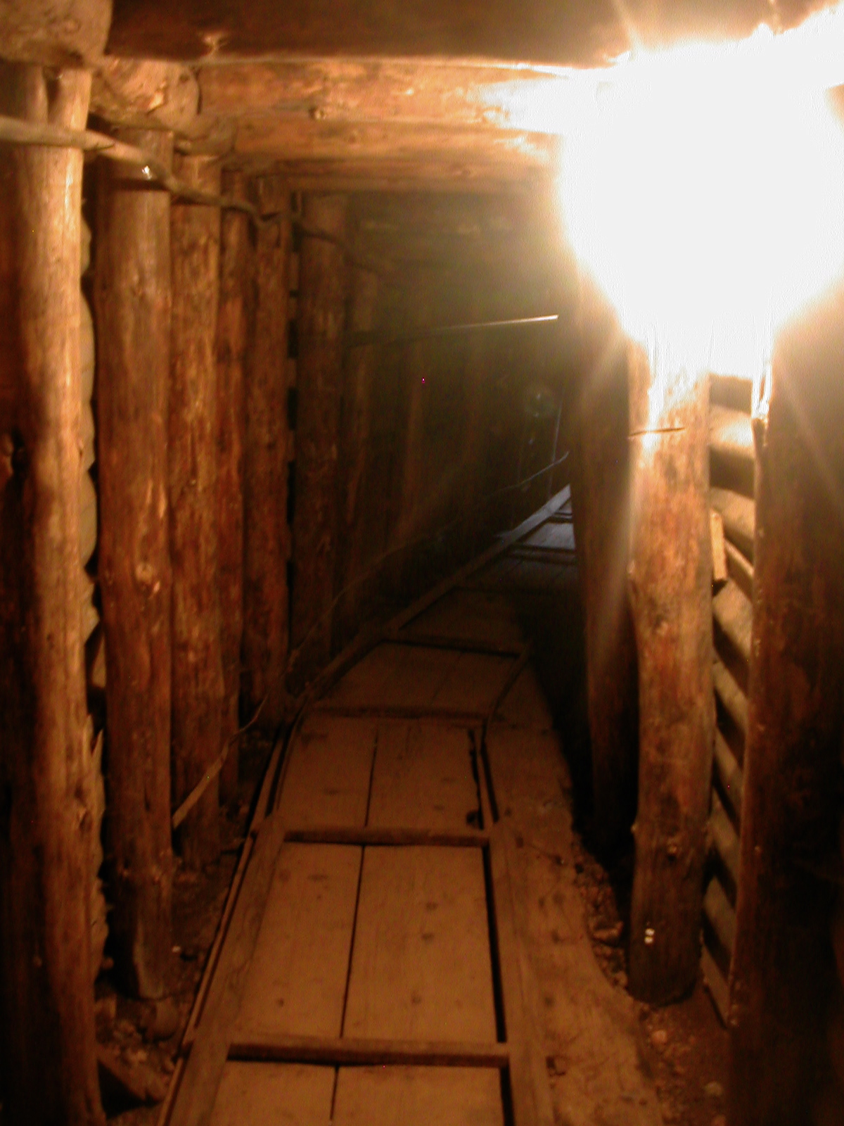 Reconstructed part of the Sarajevo tunnel.